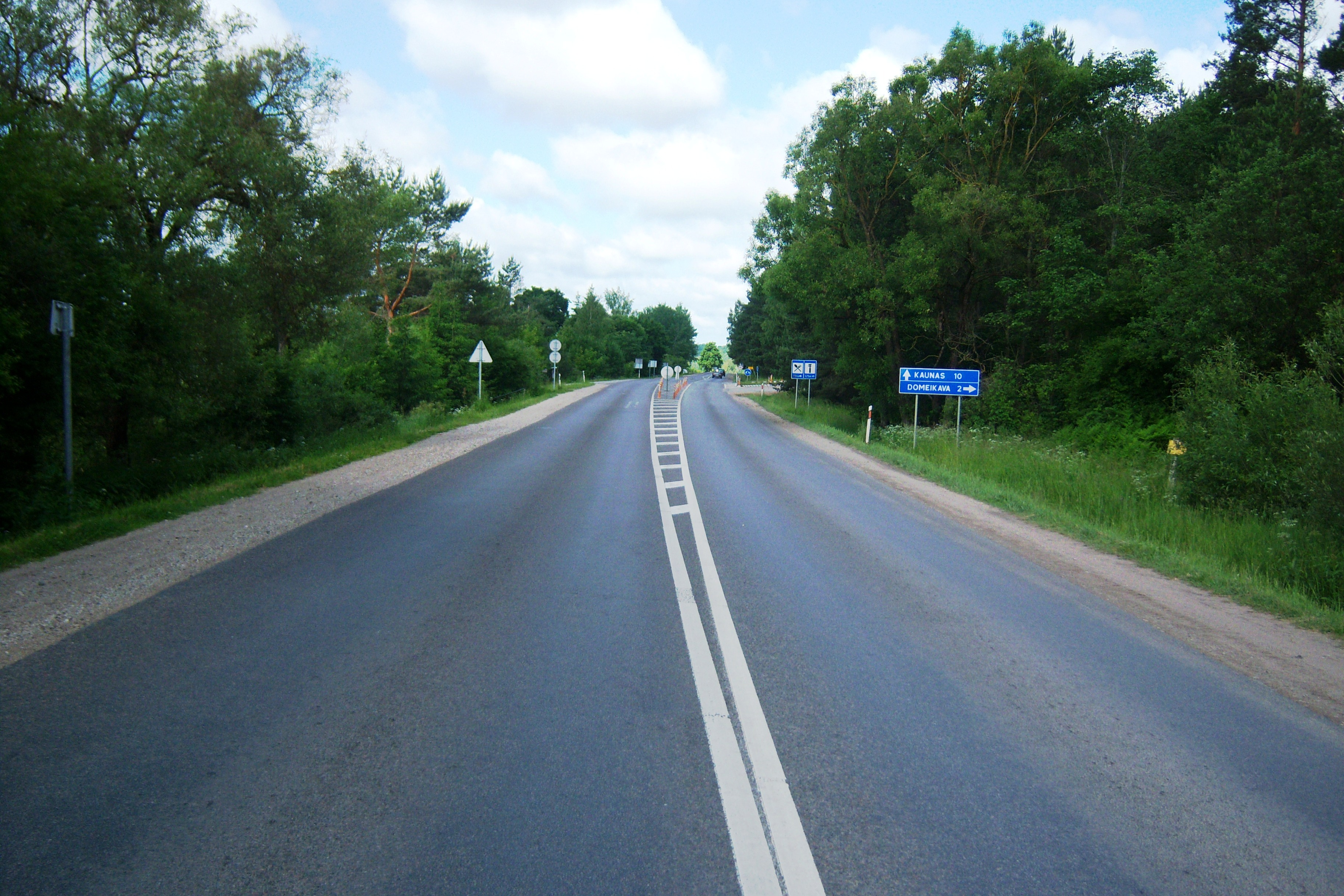 Road KK232, turn to Domeikava, Kaunas district. Lithuania